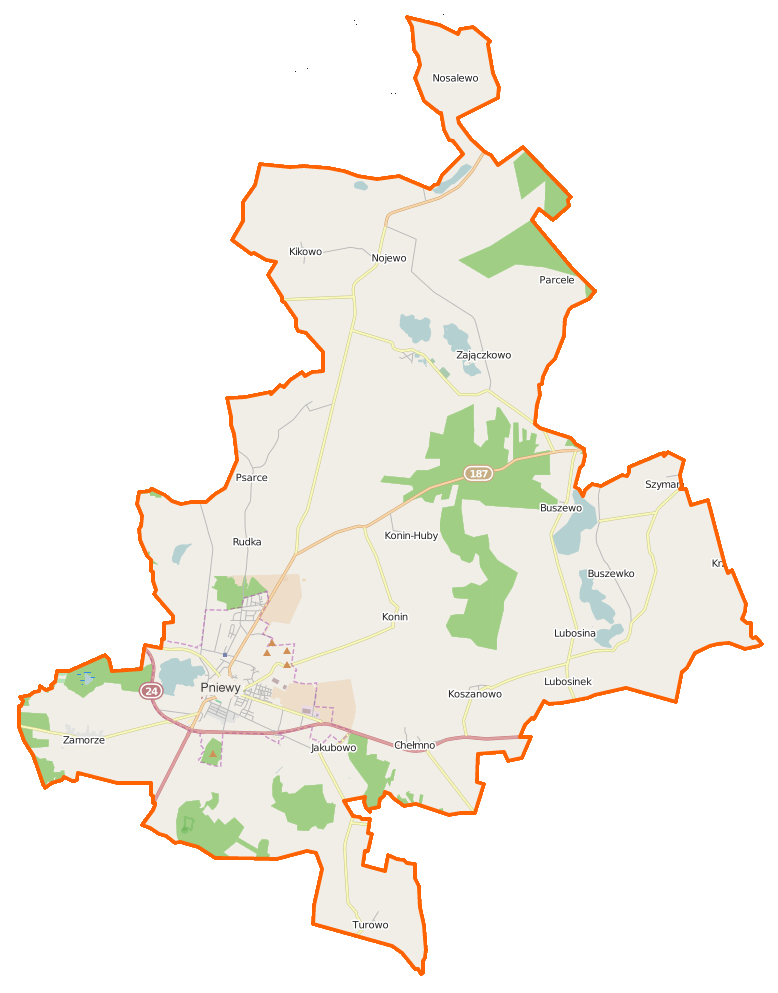 Map of Gmina Pniewy, Poland This map of Pniewy (gmina w województwie wielkopolskim) was created from OpenStreetMap project data, collected by the community. This map may be incomplete, and may contain errors. Don't rely solely on it for navigation. Border coordinates52.652916.1794←↕→16.446952.4451